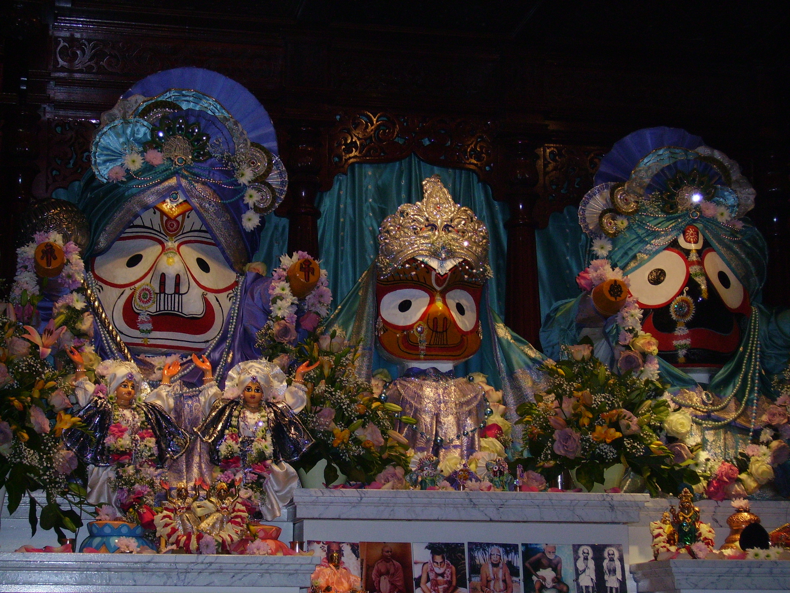 Altar of ISKCON temple in Berlin, Germany